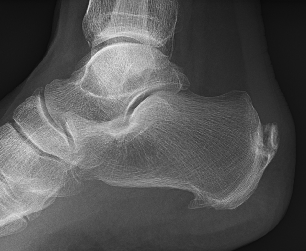 Calcification deposits forming an enthesophyte within the Achilles tendon at its calcaneal insertion, in a 68 year old woman with pain and swelling by the heel, further pointing to the diagnosis of Achilles tendinitis. The Achilles tendon (seen as somewhat brighter than the surrounding soft tissue in this X-ray presentation) is wider than normal, further suggesting inflammation. There is also an inferior calcaneal spur.